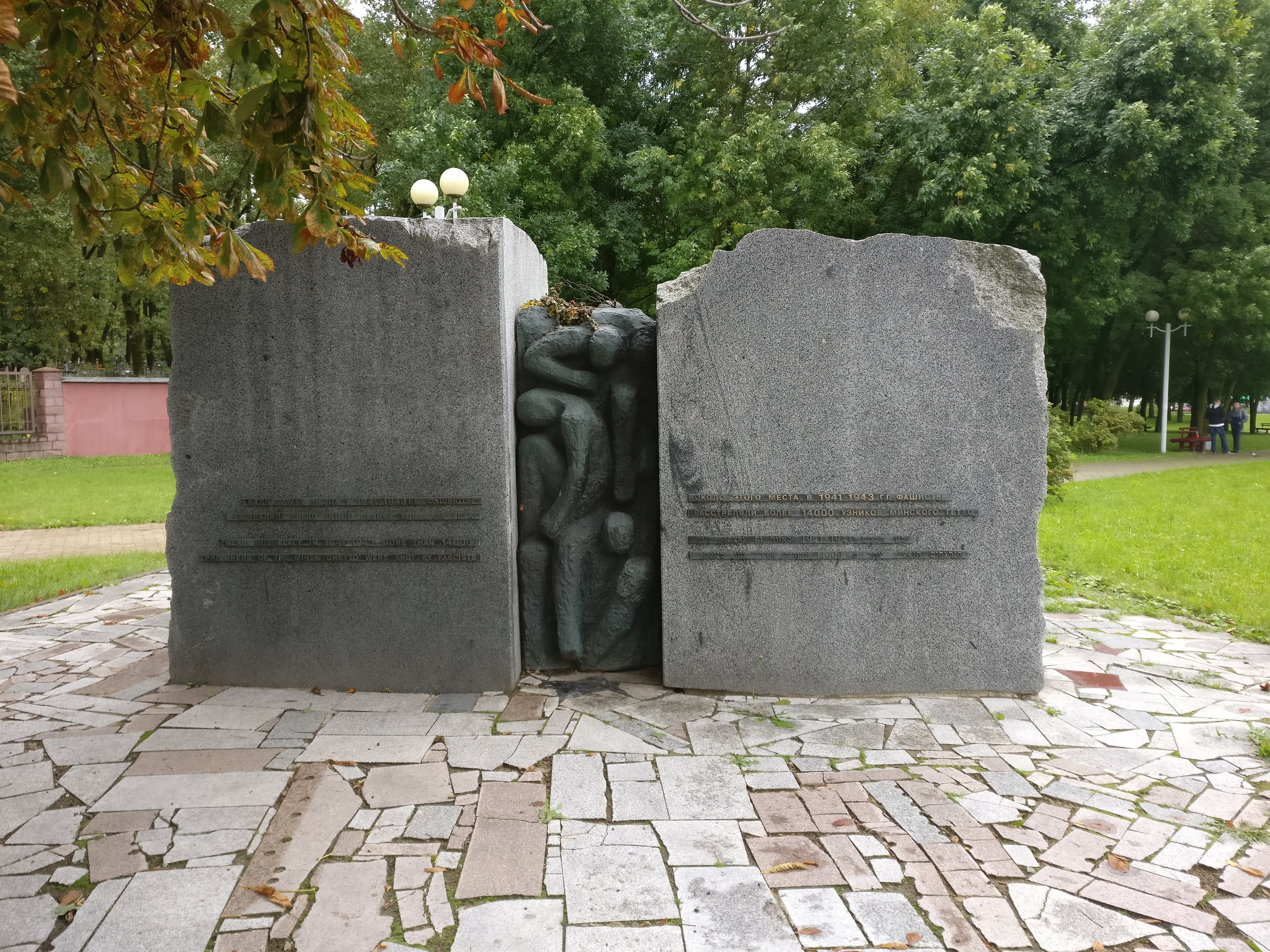 Near this place in 1941 - 1943 more that 14 000 Jewish prisoners of the Minsk ghetto were shot by German occupants.